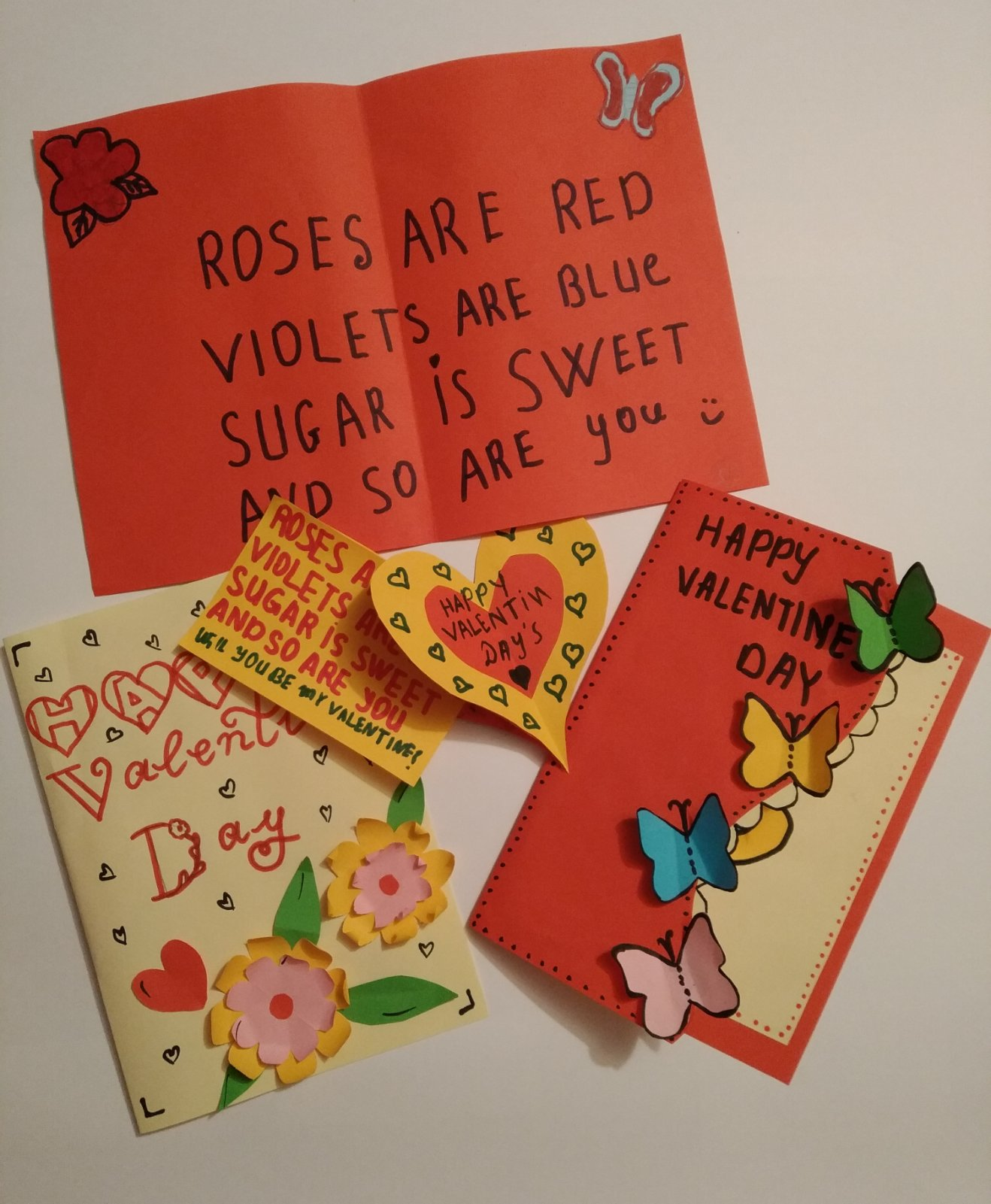 Valentine's Day Cards